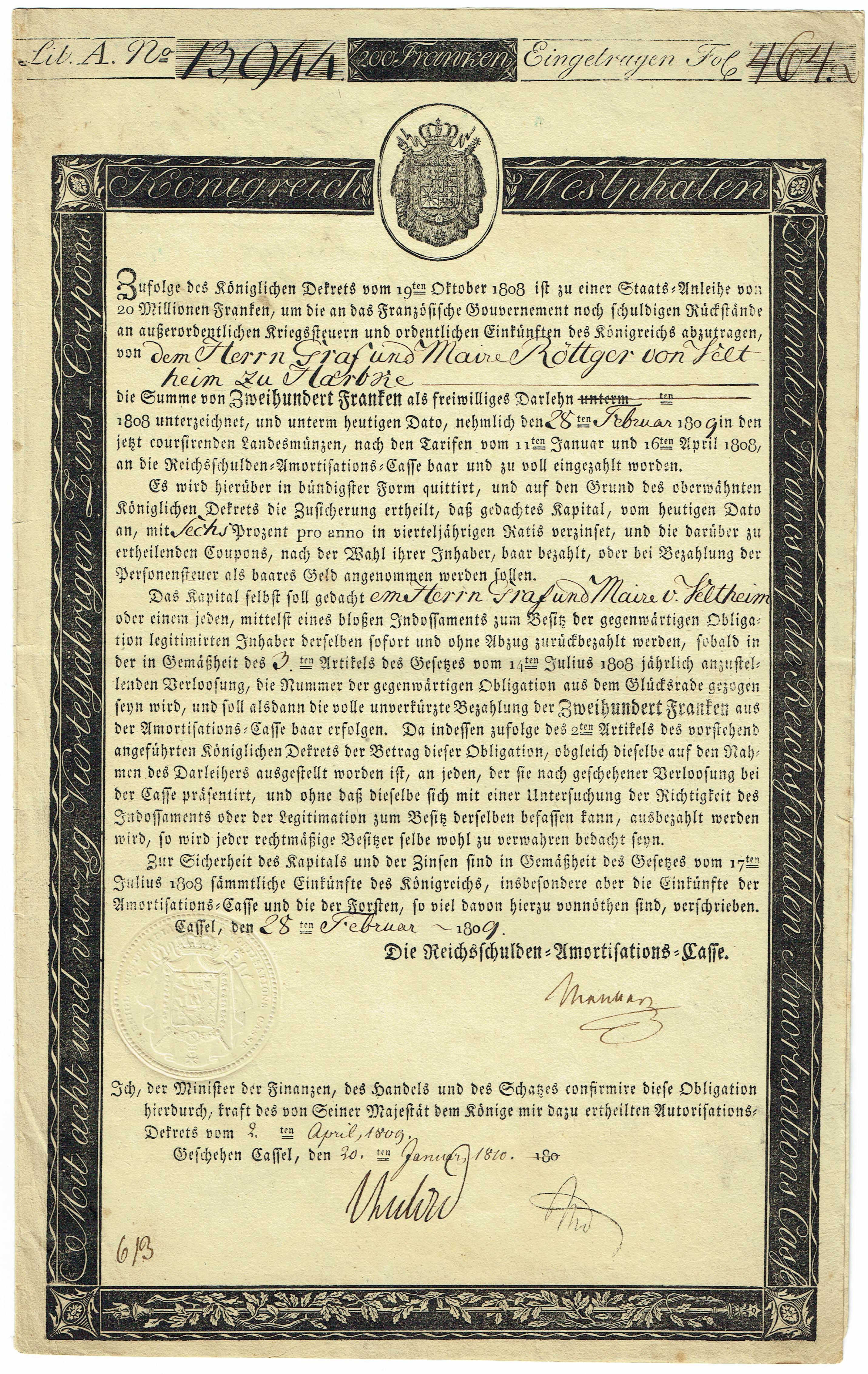 Compulsory loan of the Kingdom of Westphalia, issued 20. January 1810